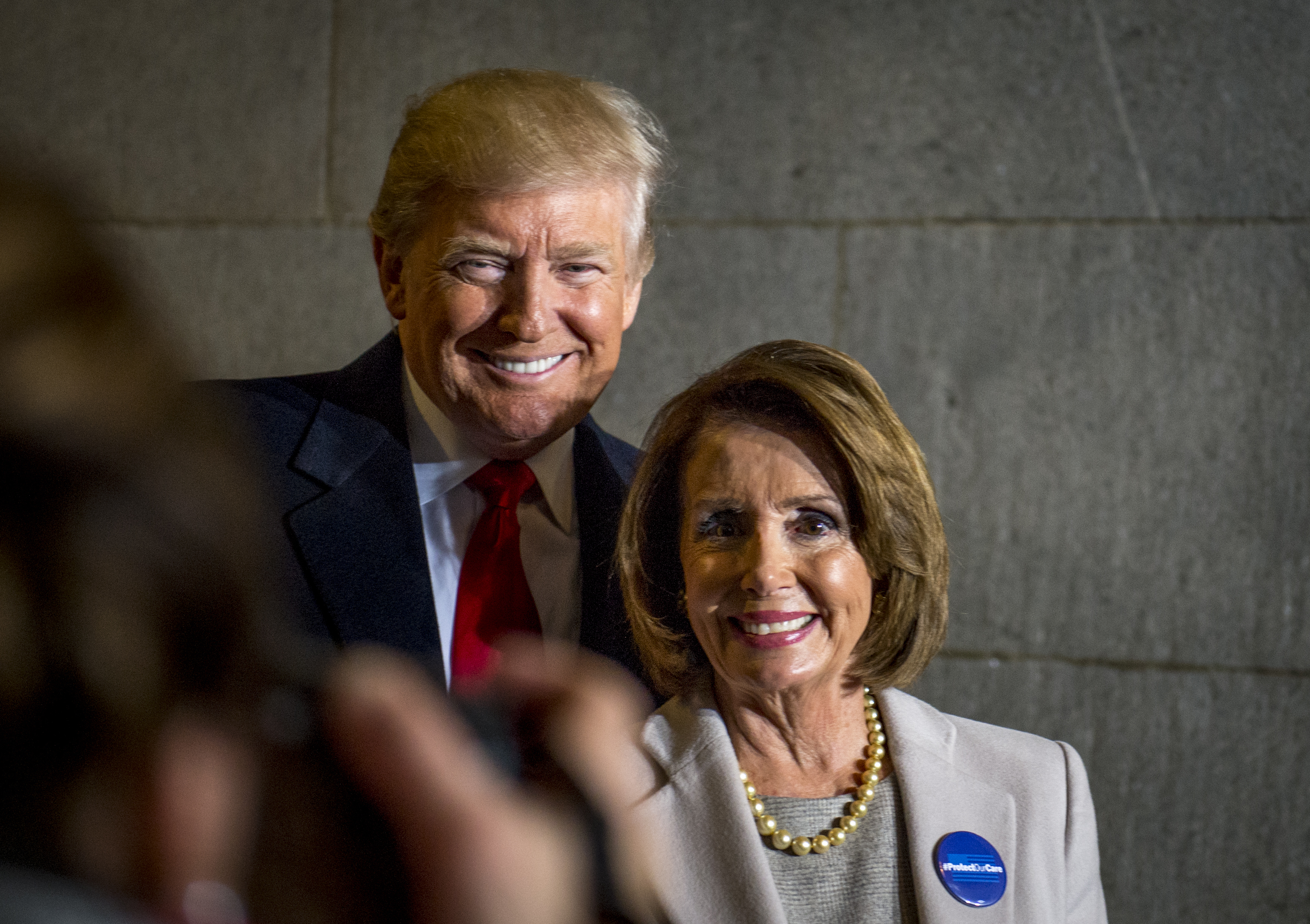 President-elect Donald J. Trump and U.S. Speaker of the House Nancy Pelosi smile for a photo during the 58th Presidential Inauguration in Washington, D.C., Jan. 20, 2017. More than 5,000 military members from across all branches of the armed forces of the United States, including reserve and National Guard components, provided ceremonial support and Defense Support of Civil Authorities during the inaugural period. (DoD photo by U.S. Air Force Staff Sgt. Marianique Santos)